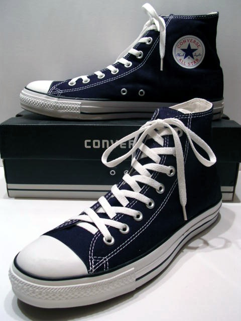 A classic dark blue pair of Converse All-Stars resting on the Black & White Ed. Shoebox (1998-2002)